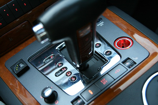 Automatic Gearbox Vw-phaeton